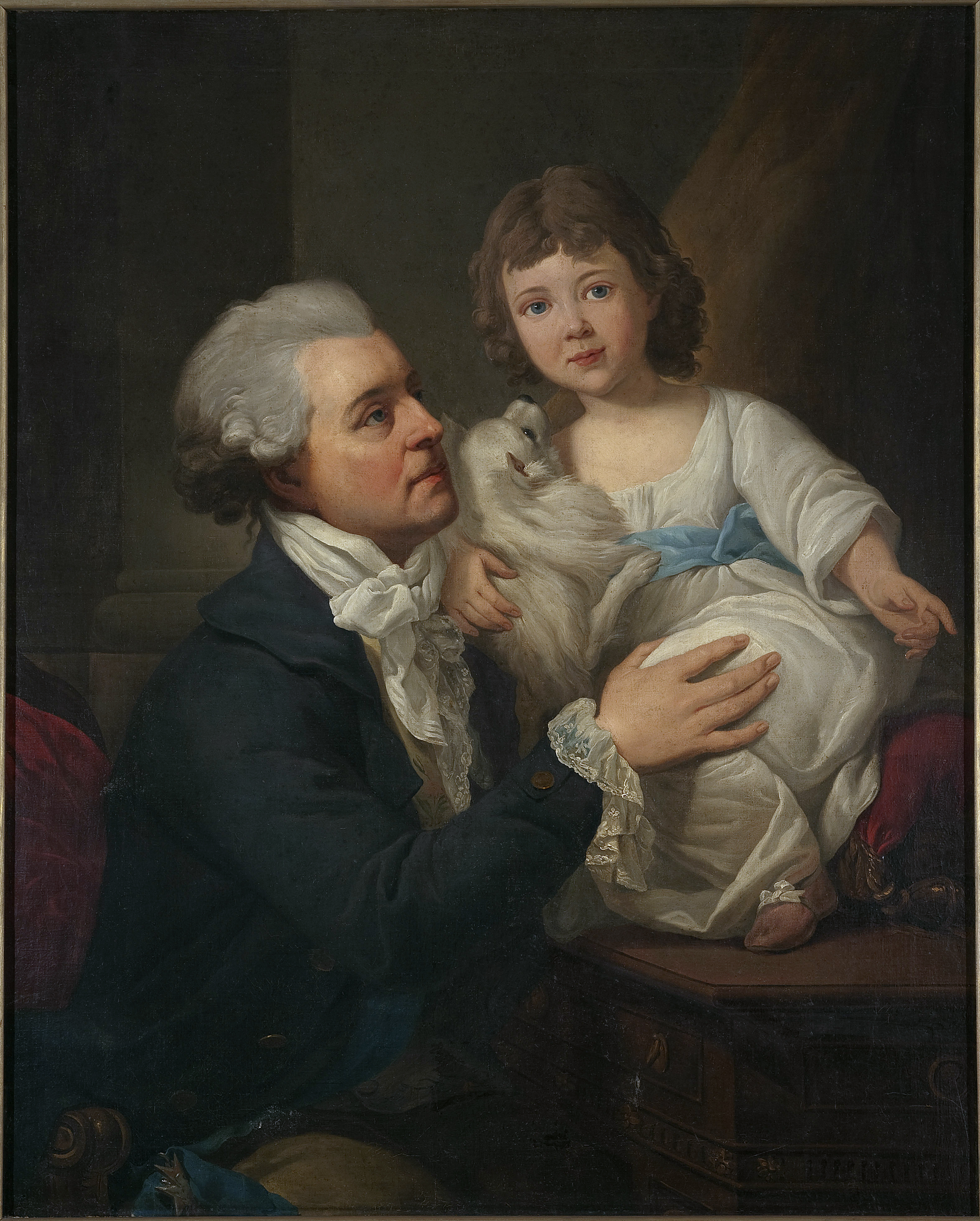 Portrait of Michał Jerzy Wandalin Mniszech and child